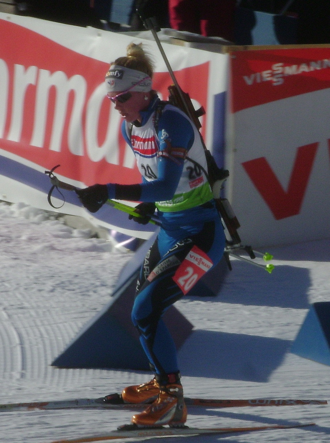 Marie Dorin in Antholz, 22-01-2010